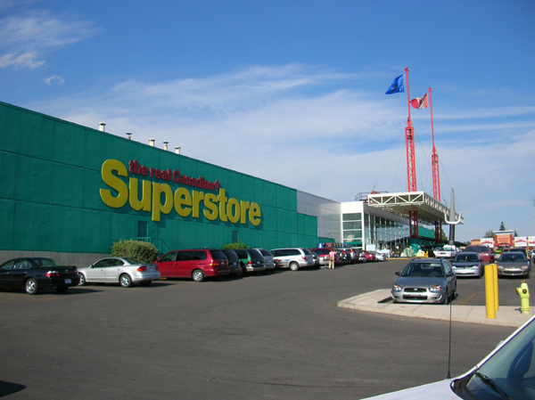 The Real Canadian Superstore in Calgary, Alberta on Southport Road Photograph by Marty Kruger.